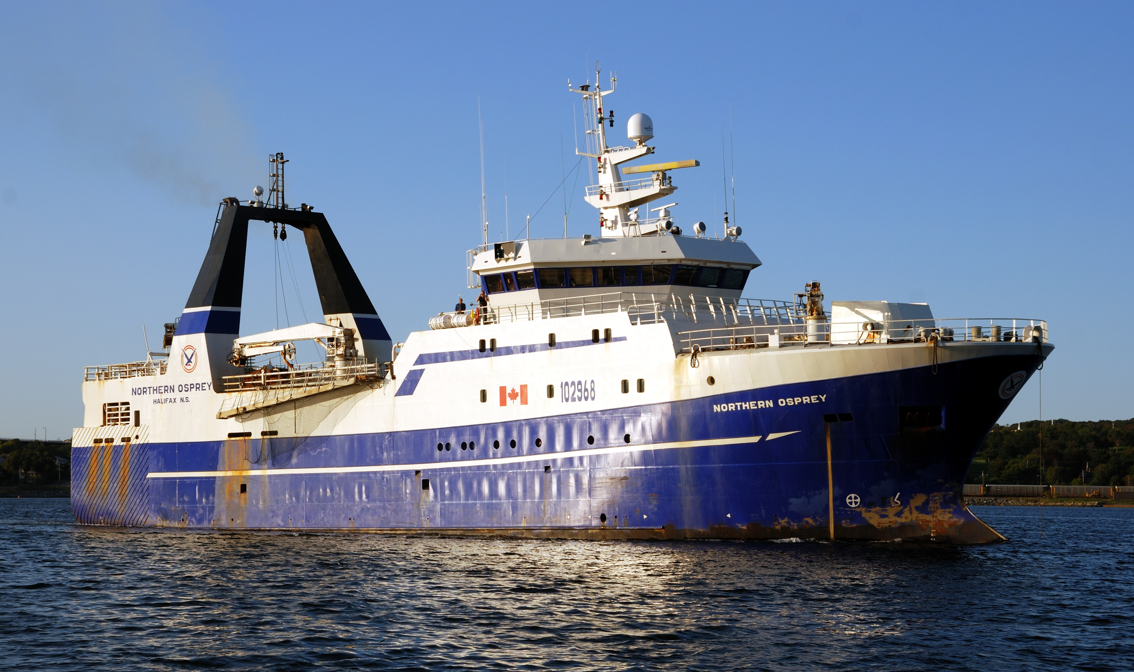 M.V. Northern Osprey in the harbour of Halifax